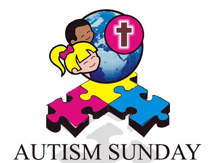 The official logo of Autism Sunday